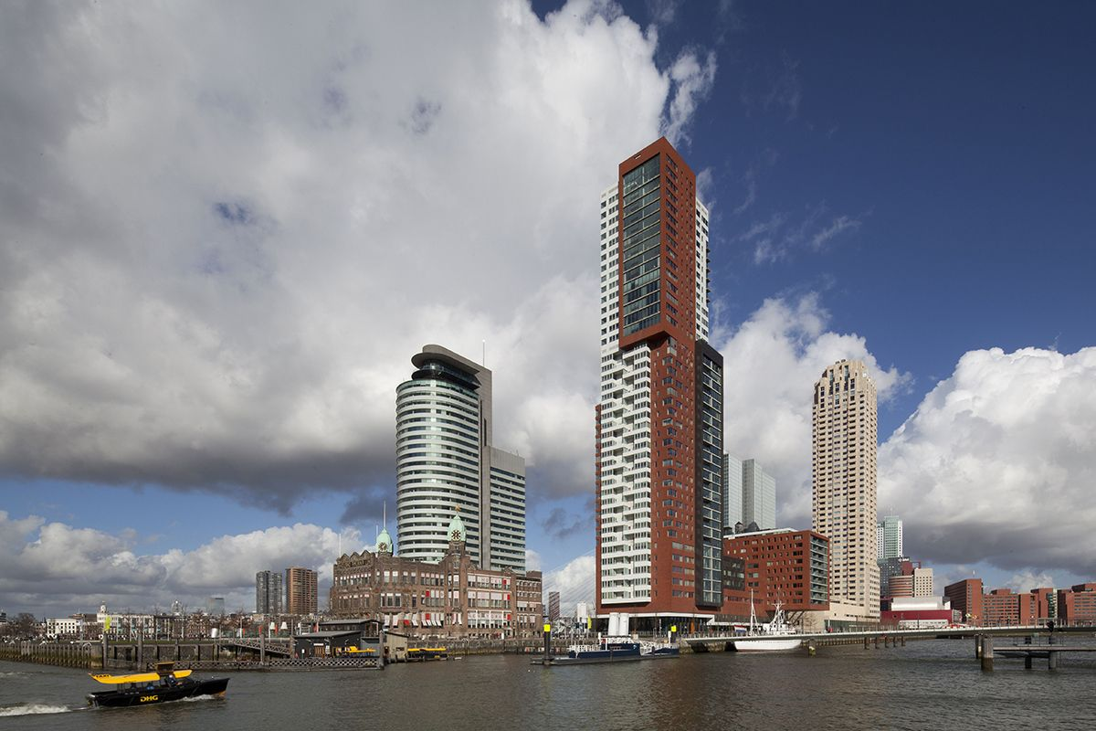 The building is a composition of interlocking volumes